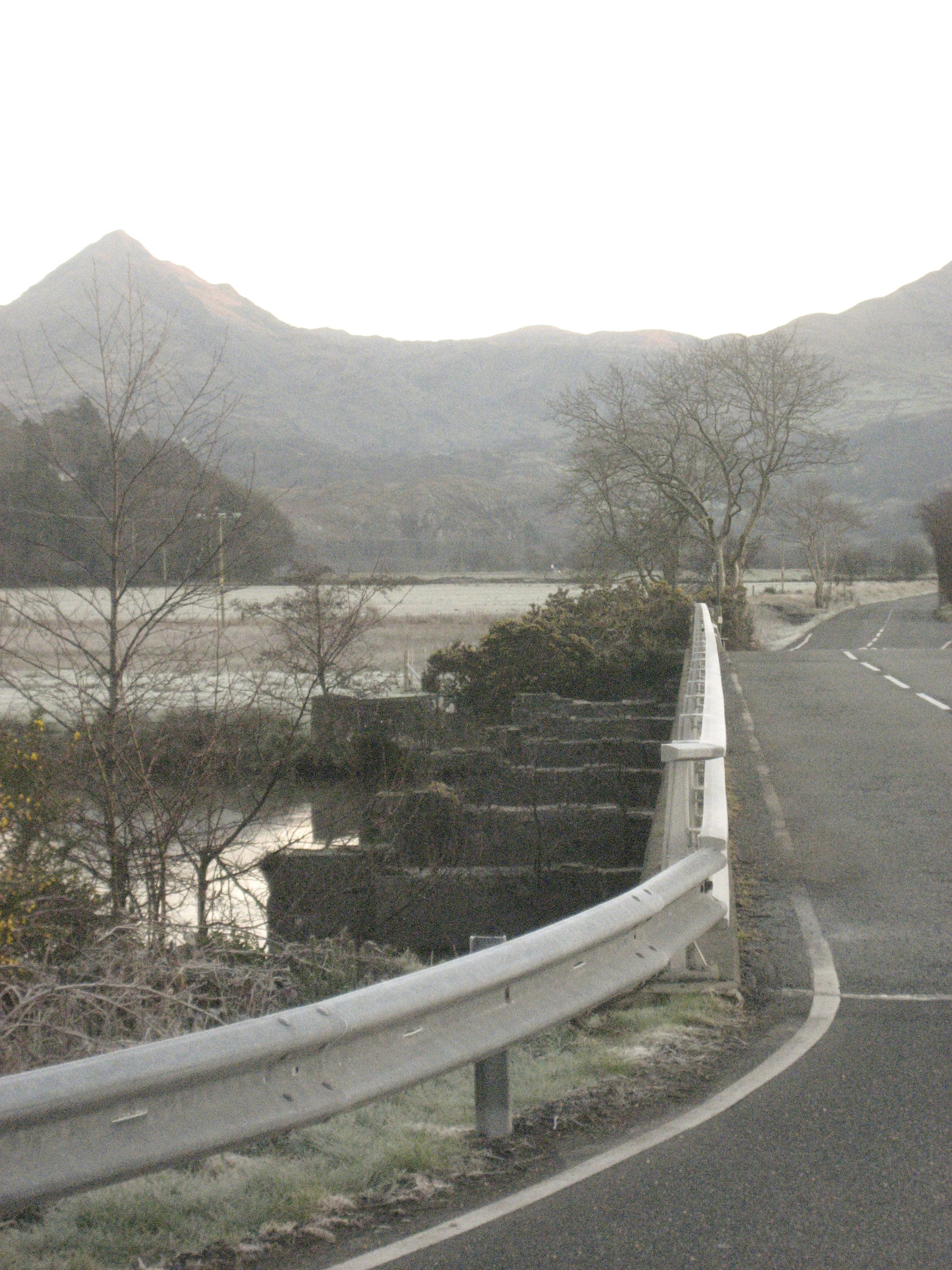 Pont Croesor over the Afon Glaslyn. In the distance is the peak of Cnicht. The original Welsh Highland Railway bridge abutments will soon once again carry the Welsh Highland Railway on the last leg of its route from Caernarfon to Porthmadog.